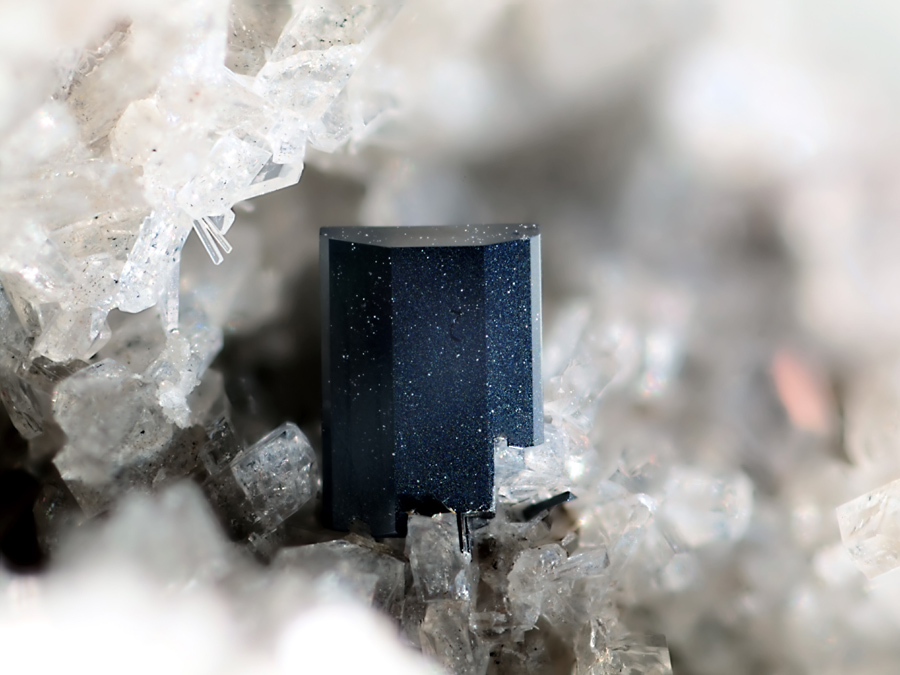 Pseudobrookite, image width: 1.5 mm - Locality: Wannenköpfe, Ochtendung, Eifel region, Germany